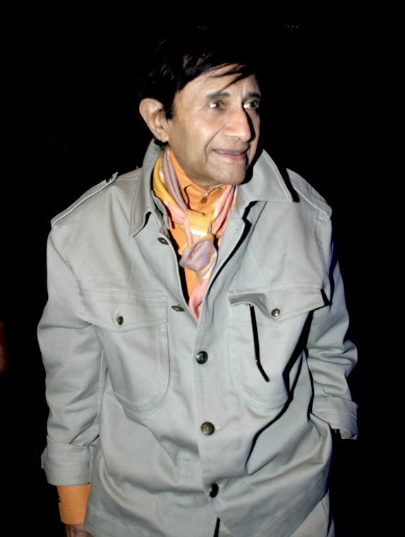 The closing night of MAMI Film Festival